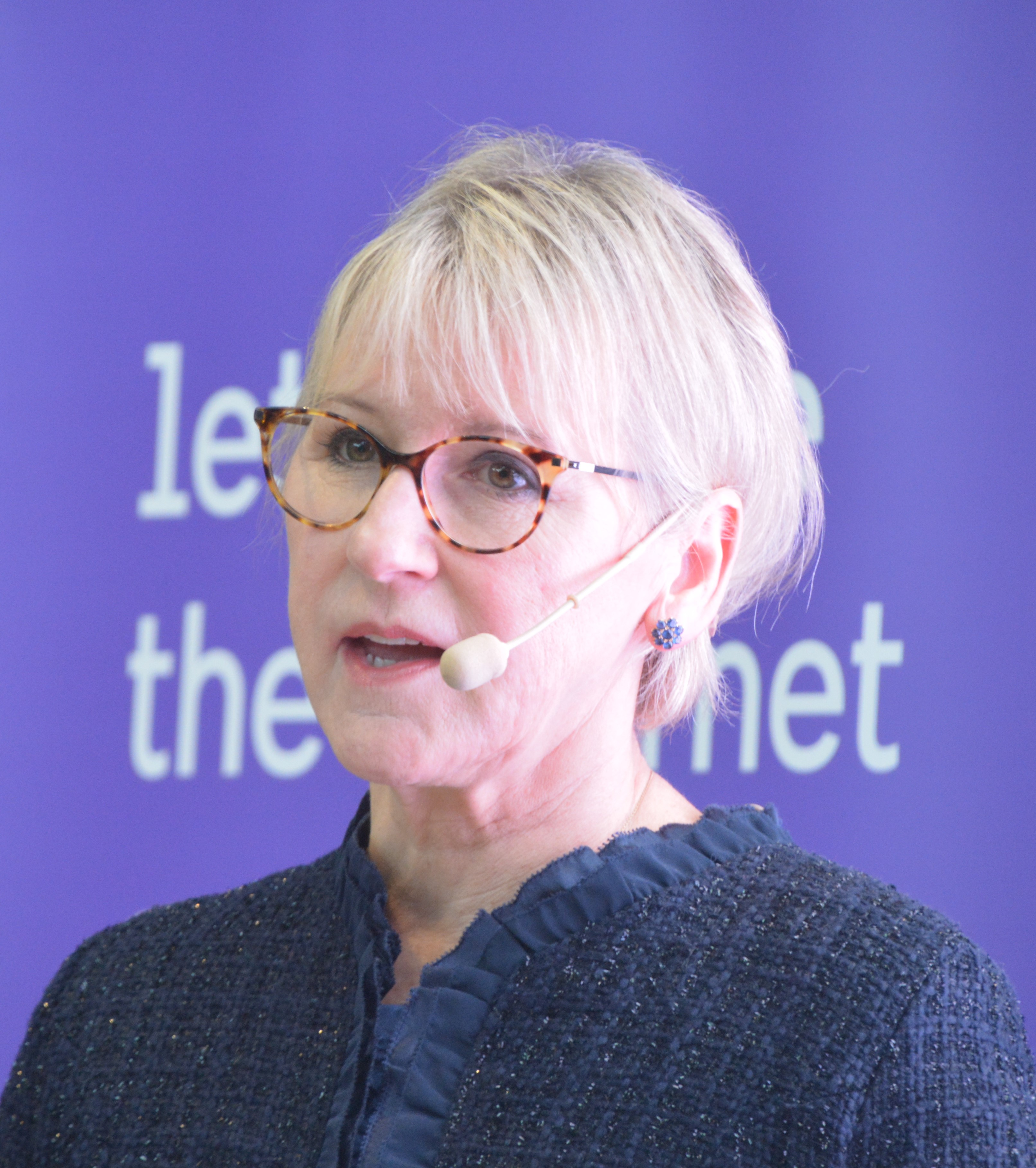 Margot Wallström WikiGap 2018, KTH Stockholm